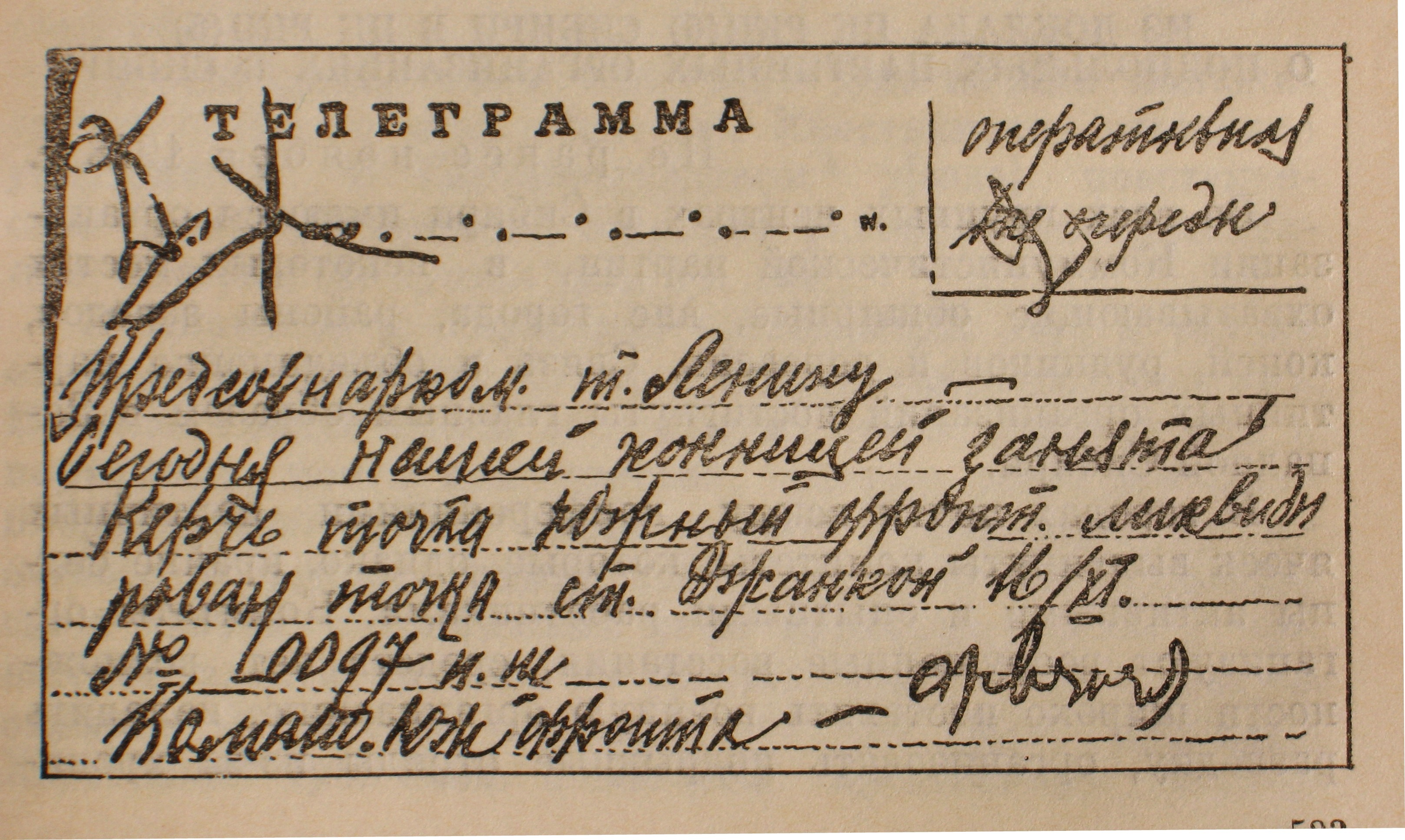 Operational telegram from bolshevik military commader Mikhail Frunze to Vladimir Lenin regarding the capture of Kerch-Peninsula and the liquidation of the southern front of Russian Civil War.